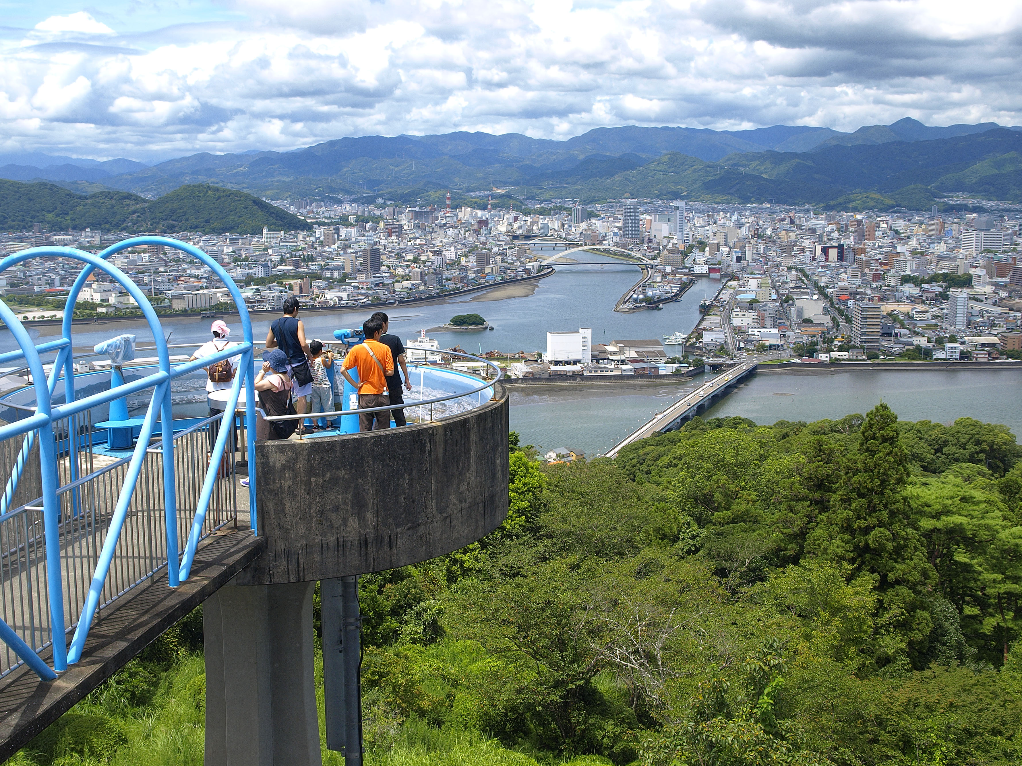 View from Godaisan, overlooking the CBD of Kochi City and Kagami river, Kochi Prefecture, Japan.